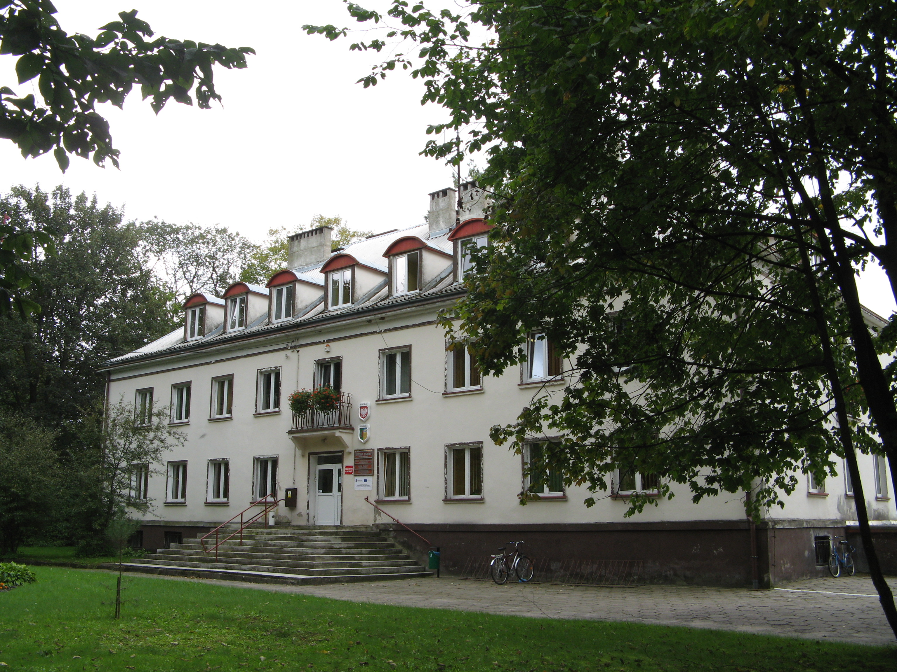 Castle in Grzmiąca (before 1945 german Gramenz)